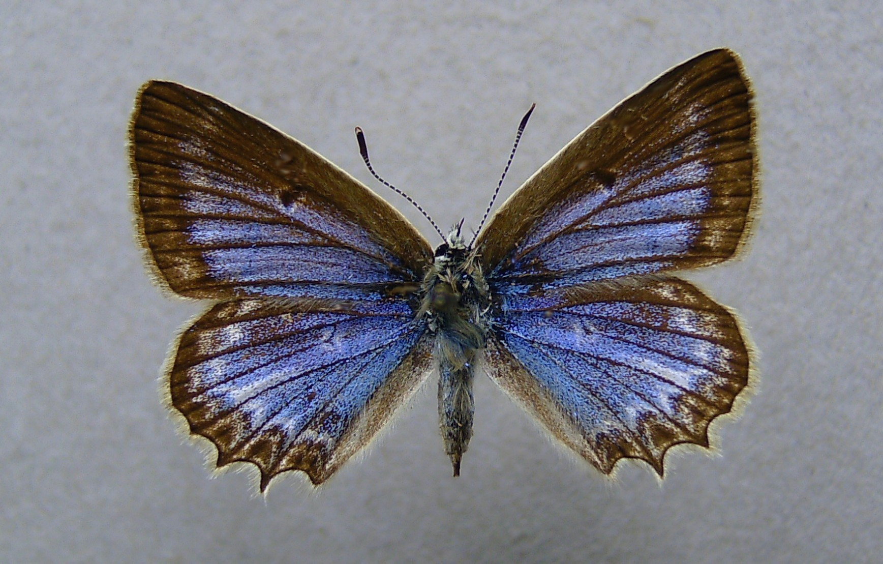 Polyommatus daphnis ♀